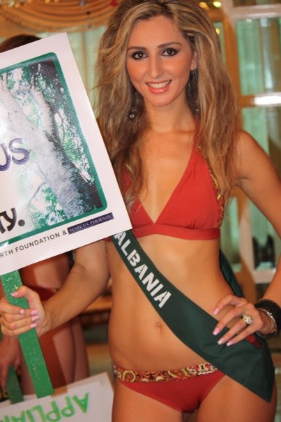 Miss Earth 2009 Press Presentation last November 4, 2009 in Valle Velarde 6, Pasig City, Philippines.